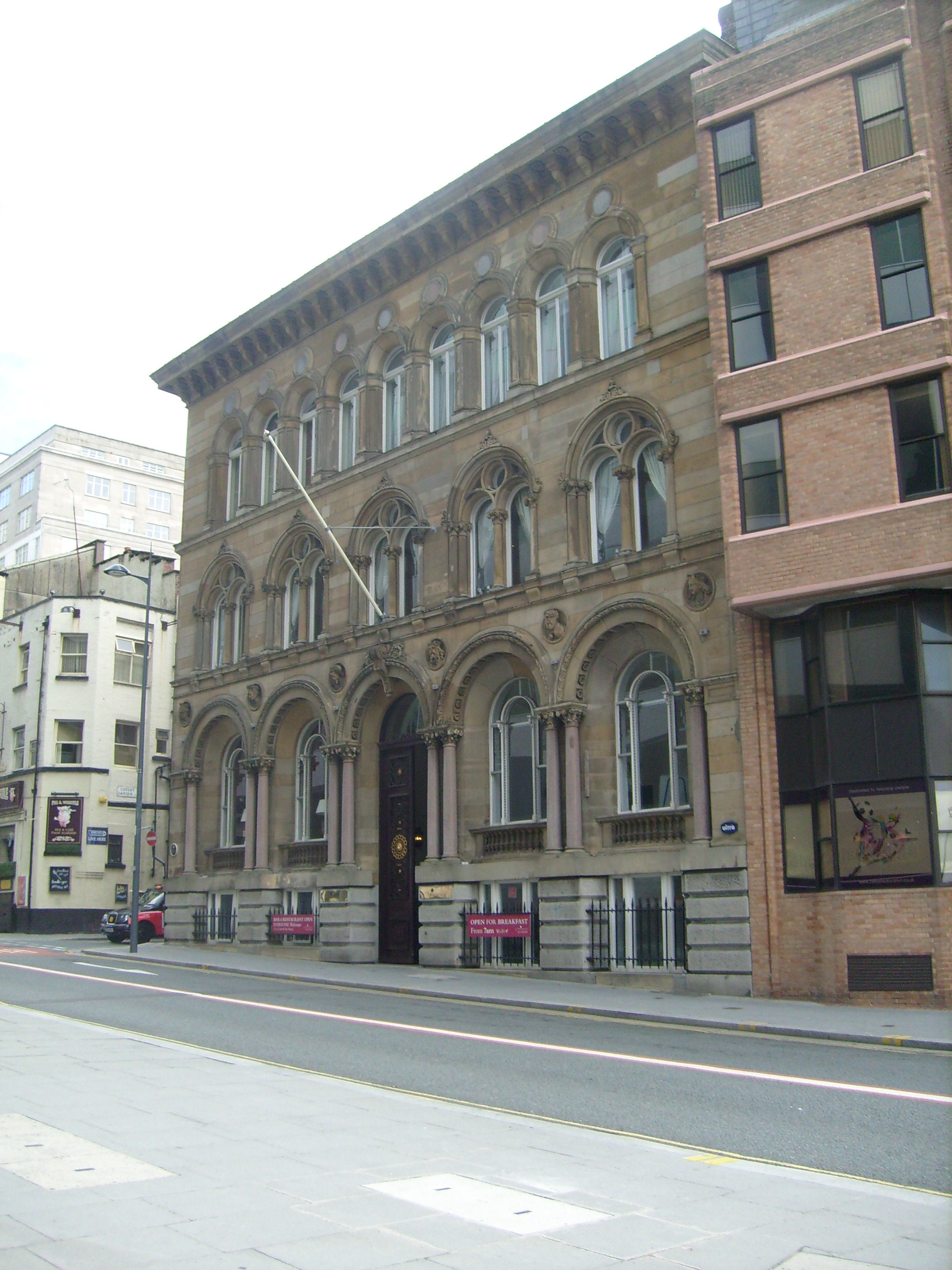 Hargreave Building